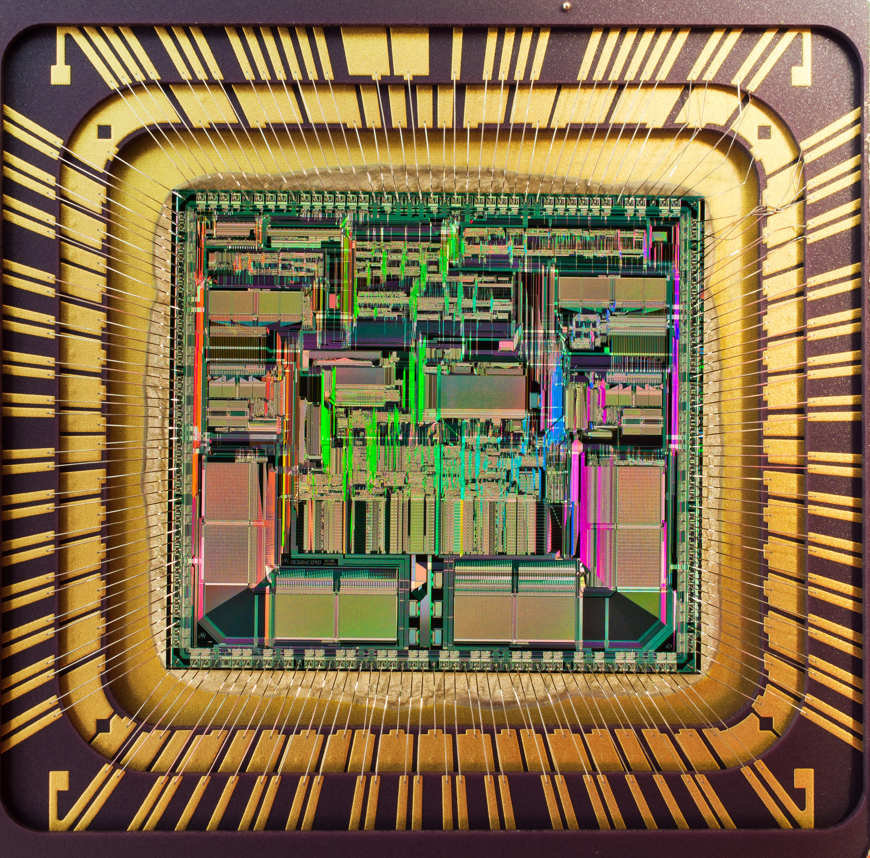 Macro photograph of the Motorola 68040 die. Identifying marks can be seen in the lower left corner. The physical die measures 14.2mm horizontal by 13.2mm vertical. Photo by Gregg M. Erickson.